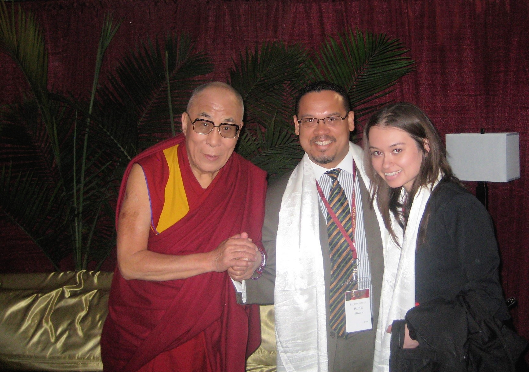 His Holiness the 14th Dalai Lama of TIBET Public Talk in Minneapolis, MN, USA on May 8: His Holiness will give a public talk on Peace Through Inner Peace in the afternoon organized by the Center for Spirituality and Healing and the Tibetan American Foundation of Minnesota at the Mariucci Arena, University of Minnesota. Contact Website: Teaching in Minneapolis, MN, USA on May 8: His Holiness will confer a Medicine Buddha Empowerment in the morning organized by the Center for Spirituality and Healing and the Tibetan American Foundation of Minnesota at the Mariucci Arena, University of Minnesota. Contact Website